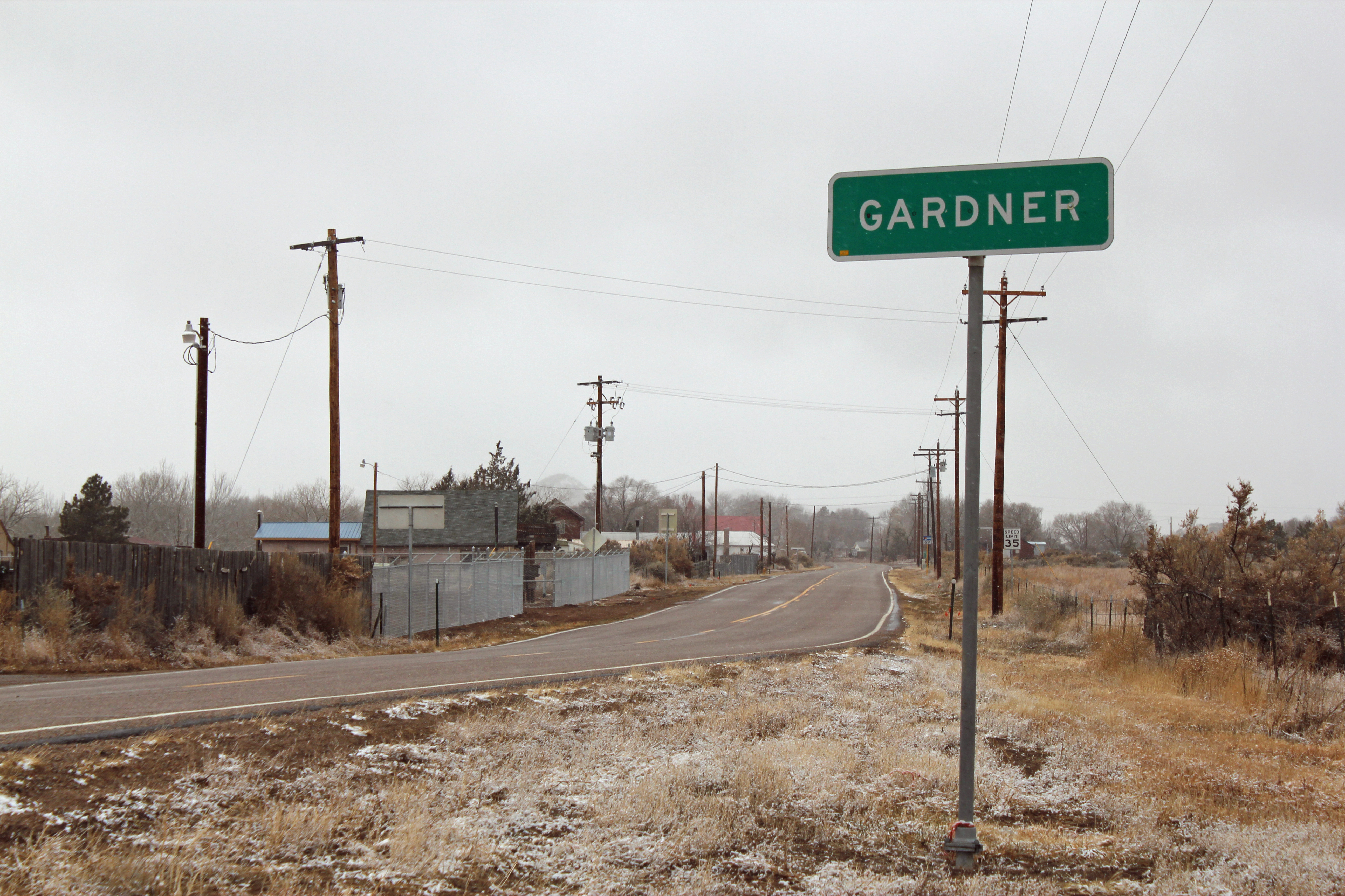 The town of Gardner, Colorado, in Huerfano County. The view is of Colorado State Highway 69, entering the town from the east.